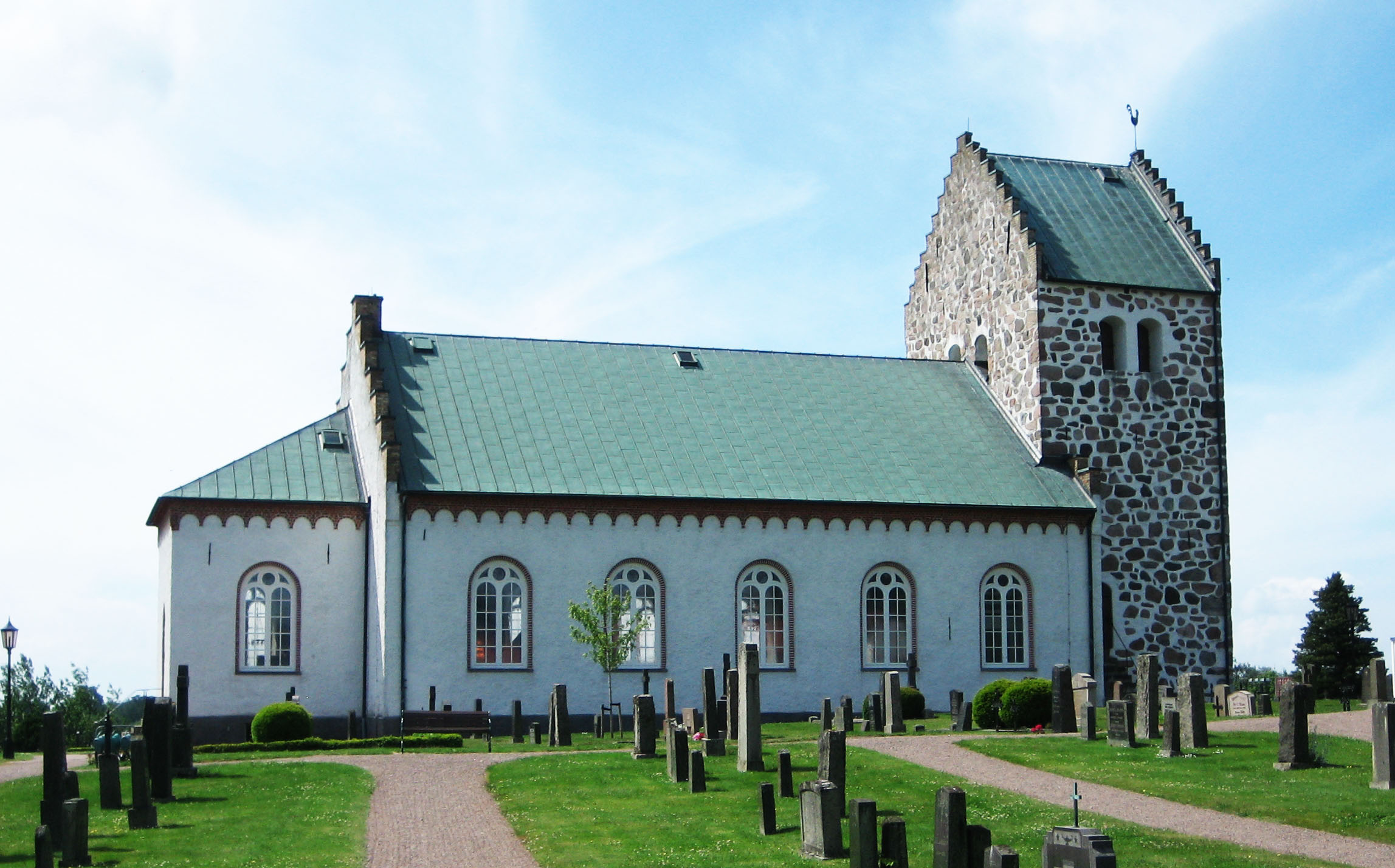 Förlövs kyrka, The church in Förslöv, Sweden.